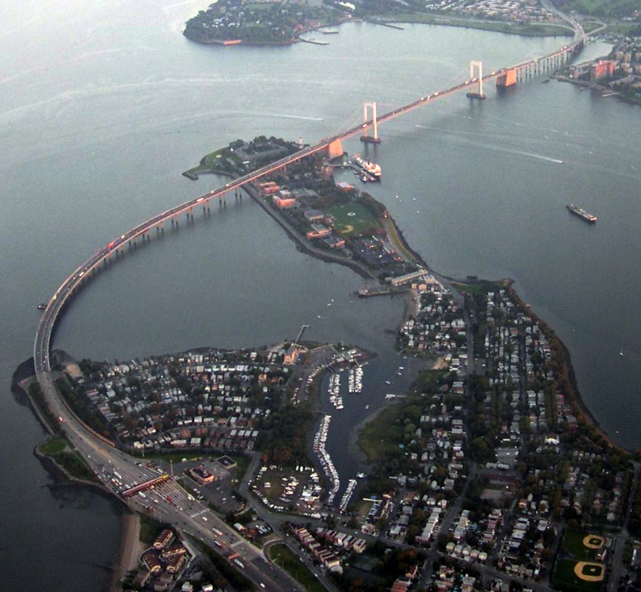 The Throgs Neck Bridge in New York City, NY, USA taken from the air